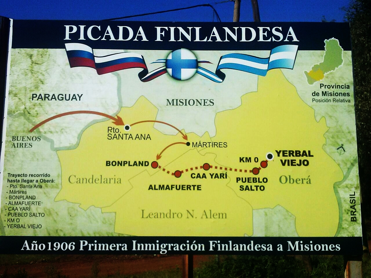 Commemorative sign of the Finnish immigration to Misiones.